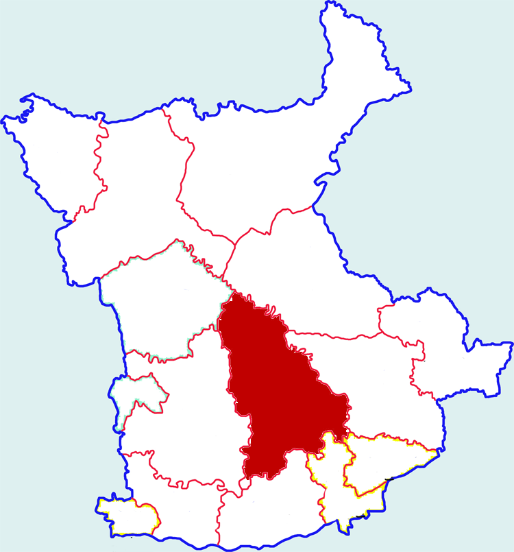 Location of Liquan county in Xianyang city, China